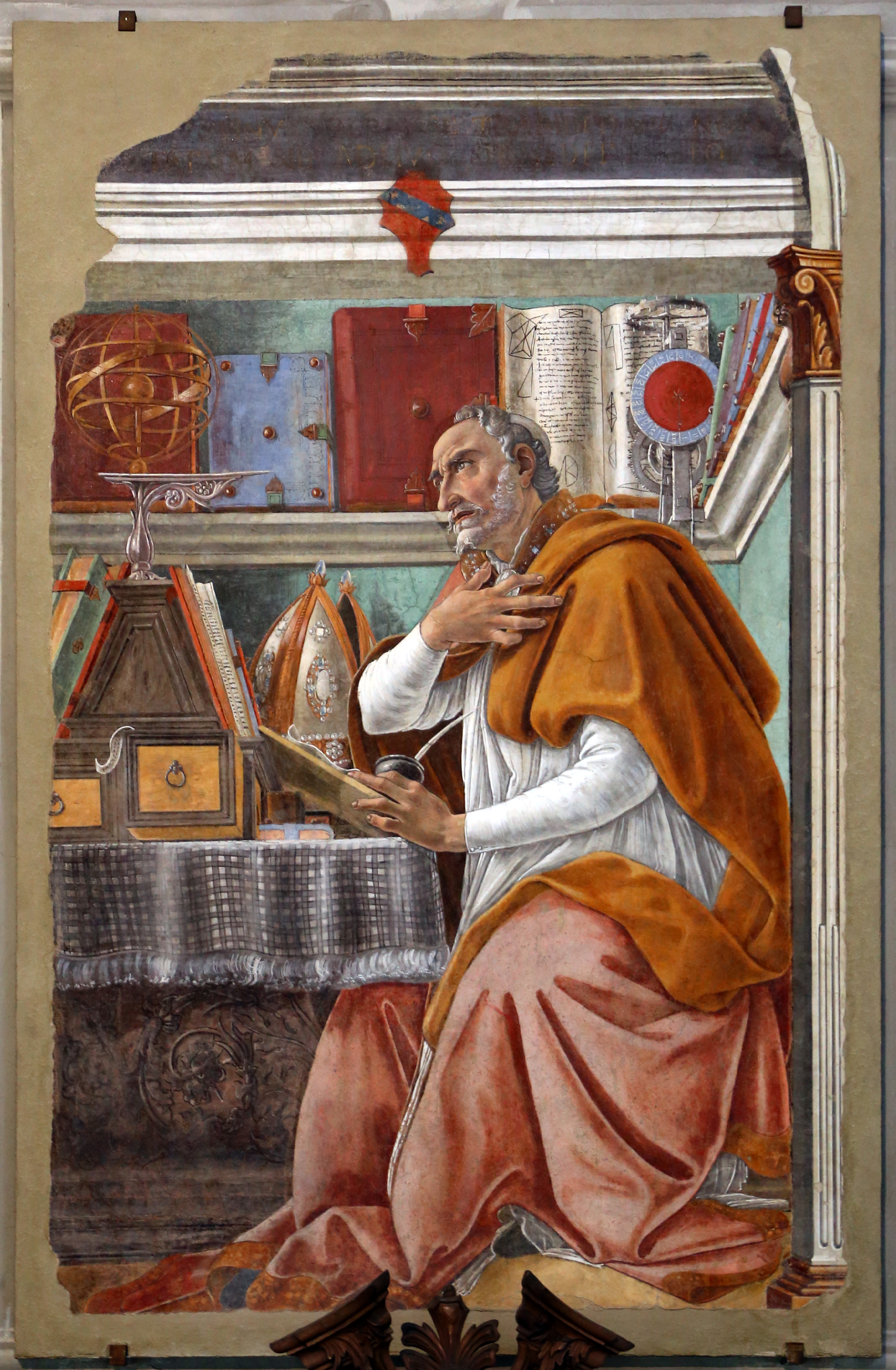 Ognissanti (Florence) - Interior